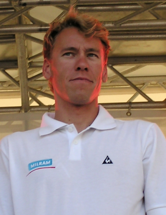 The German racing cyclist Sebastian Siedler at the team presentation for the Deutschland Tour 2006 in Düsseldorf, Germany.